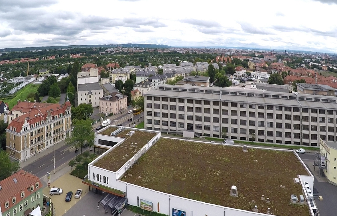 Goehle plant in Dresden at Großenhainer Straße 101